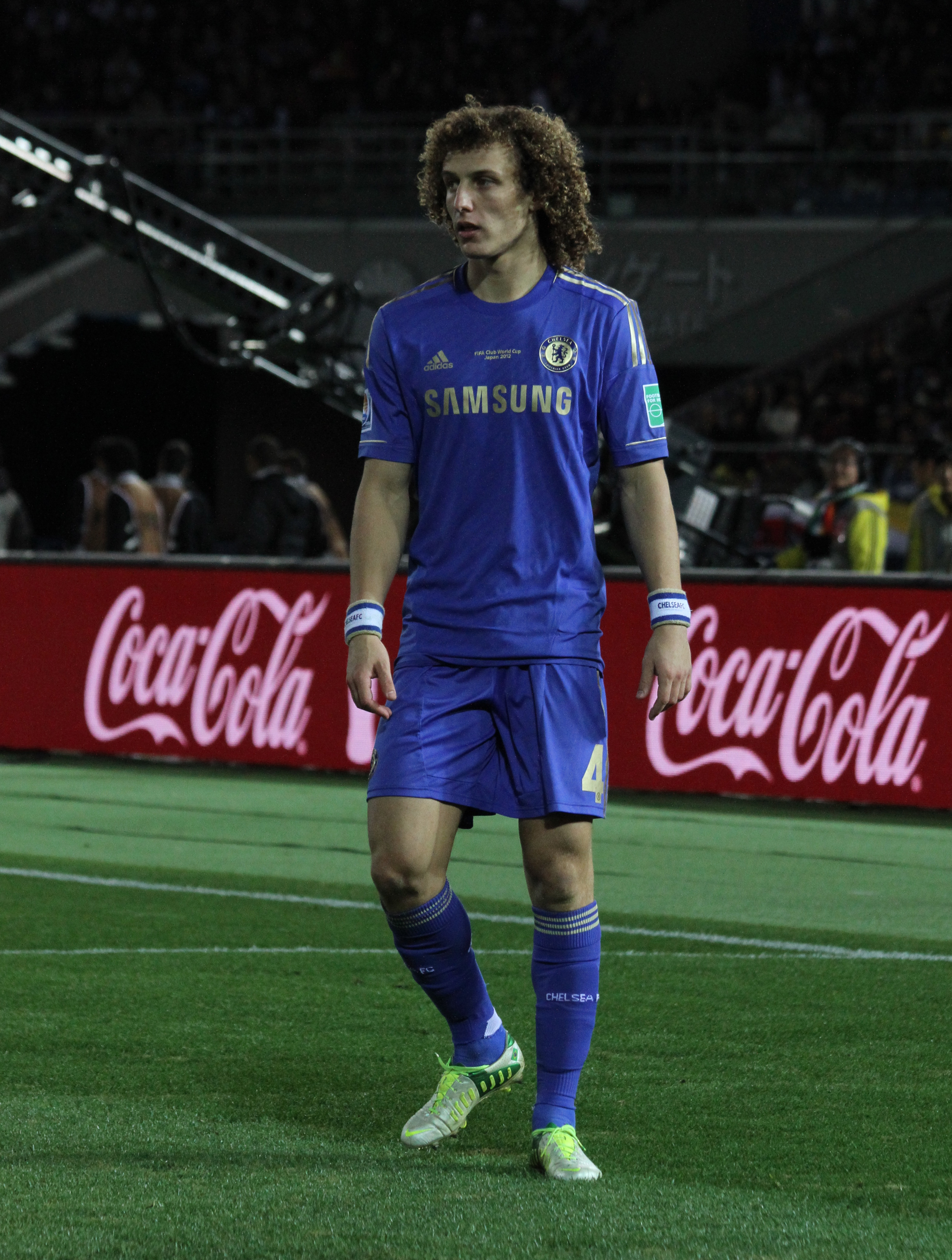 Playing for Chelsea in the 2012 Club World Cup final.